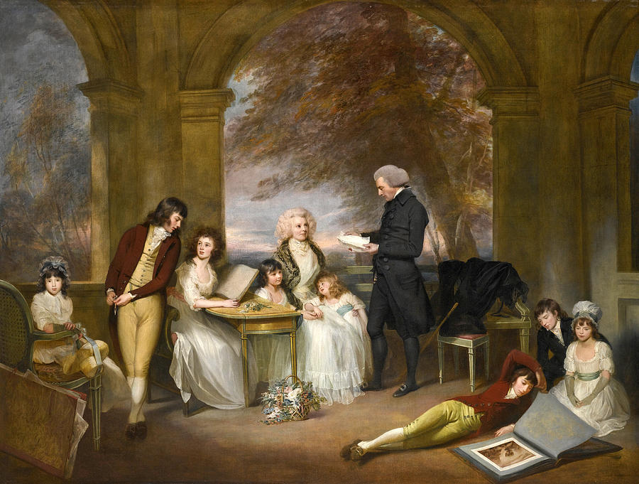 Portrait of Archdeacon Strachey and his Family, group portrait of John Strachey (1737–1818), Anglican priest, later Archdeacon of Suffolk, his wife Anne Wombwell, and children.